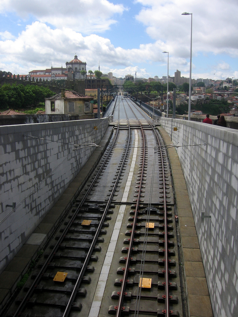 Exit of tunnel to D. Luís I bridge, in Oporto metro, with Vila Nova de Gaia on the background.